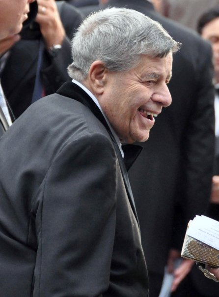 Jerry Lewis at the Cannes film festival